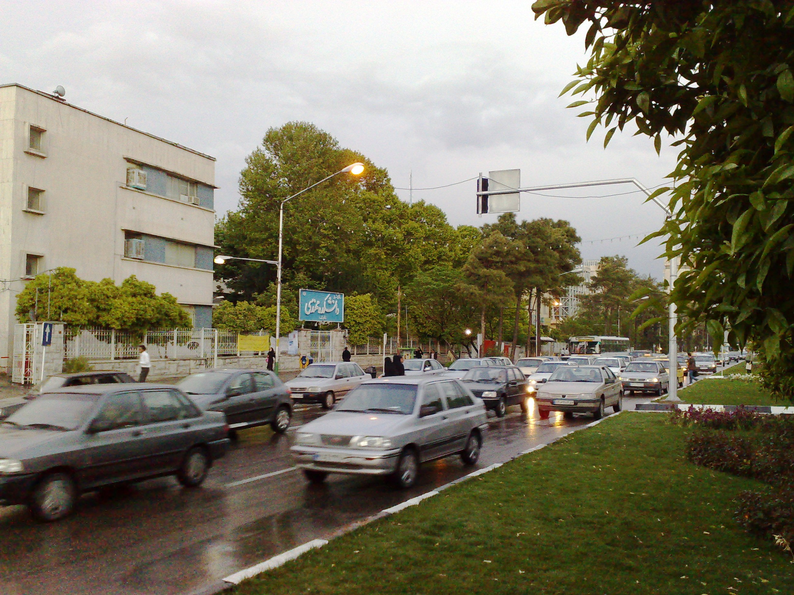 shiraz